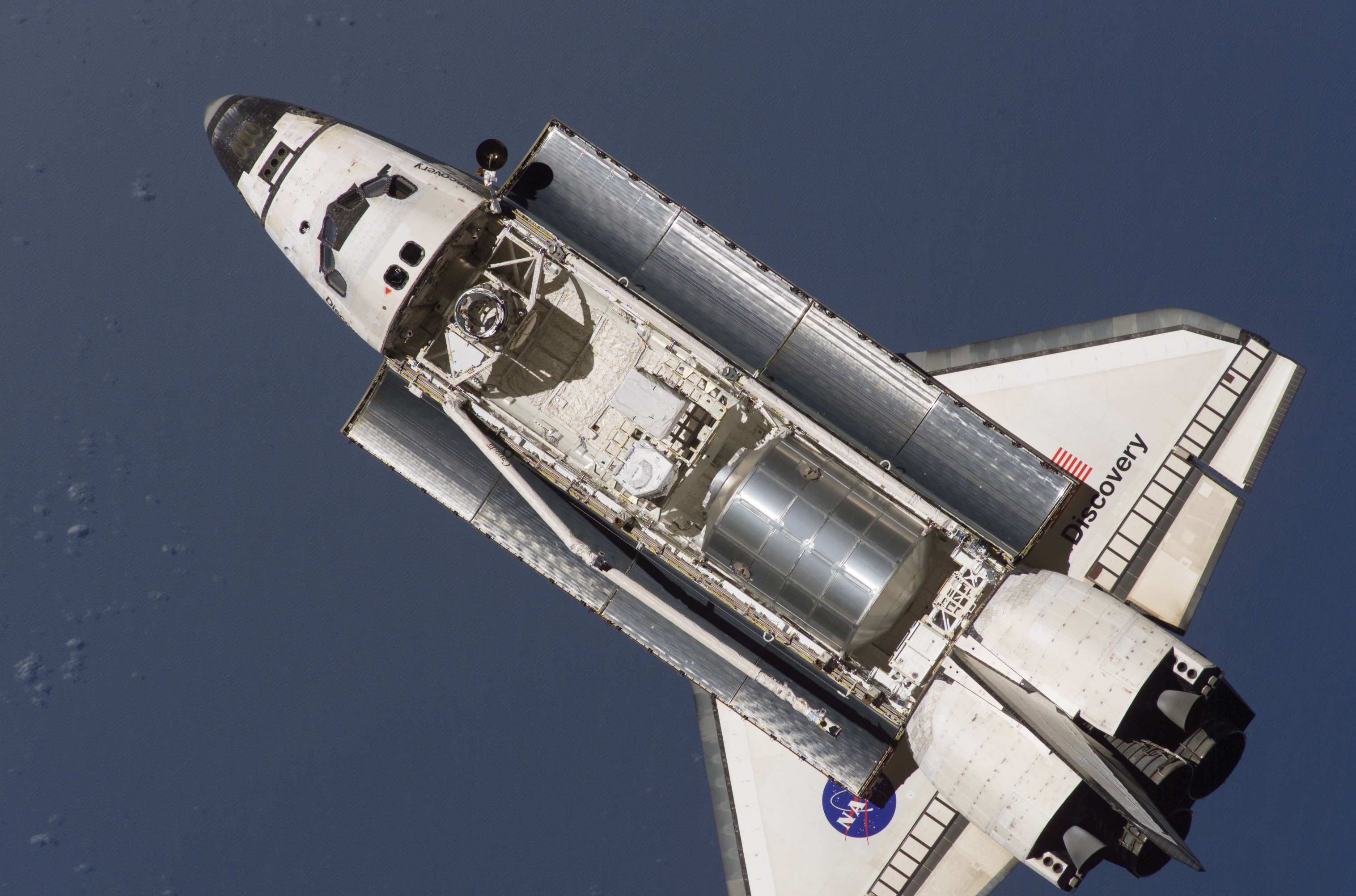 The Space Shuttle Discovery flies near the International Space Station for docking but before the link-up occurred, the orbiter "posed" for a thorough series of inspection photos. Leonardo Multipurpose Logistics Module can be seen in the shuttle's cargo bay. Discovery docked at the station's Pressurized Mating Adapter 2 at 9:52 a.m. CDT, July 6, 2006